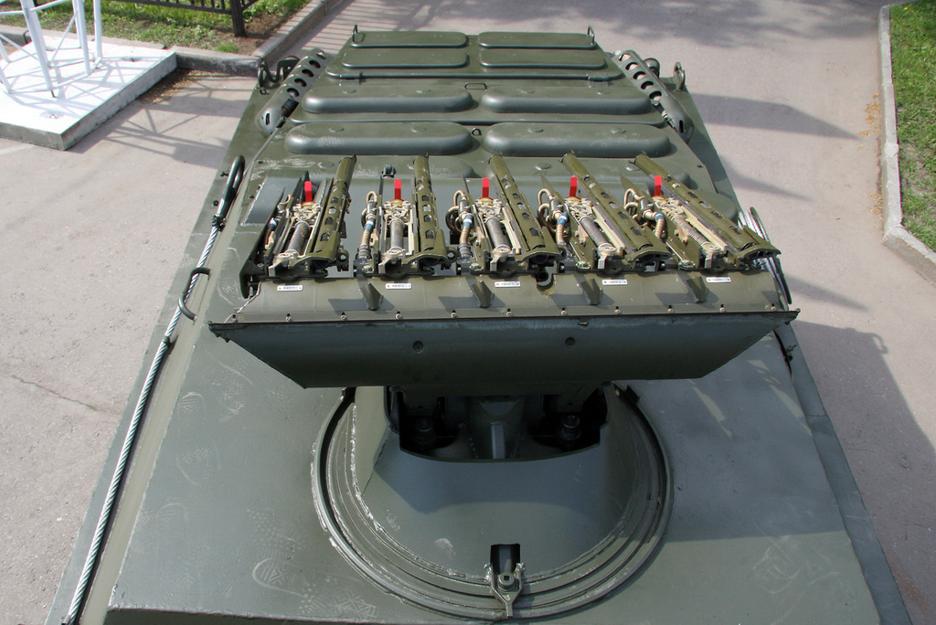 9M113 Konkurs ATGM launching rails on the top of 9P148 launching vehicle on BRDM-2 base. Military exhibition in Luzhniki sports area.